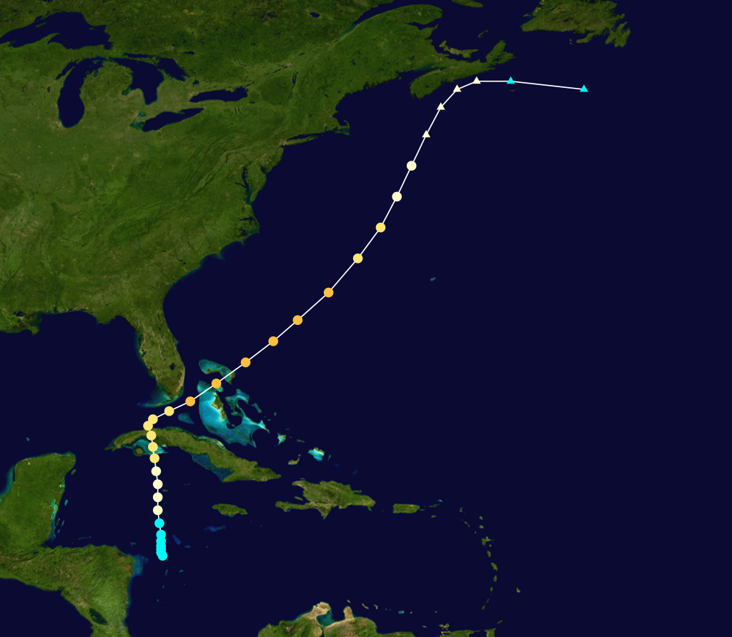 1933 Atlantic hurricane 18 track. Uses the color scheme from the Saffir-Simpson Hurricane Scale.